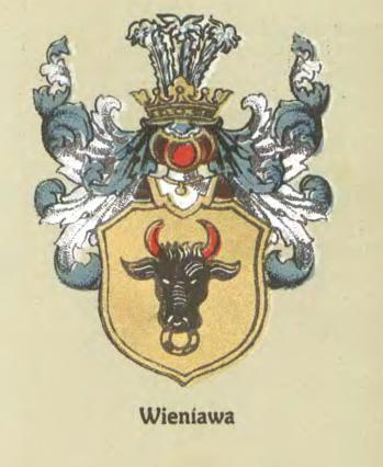 Wieniawa coat of arms by Zbigniew Leszczyc published in "Herby szlachty polskiej"